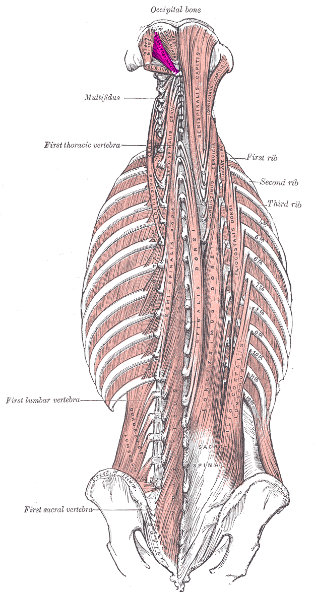 Rectus capitis posterior major muscle drawing from Grays' Anatomy